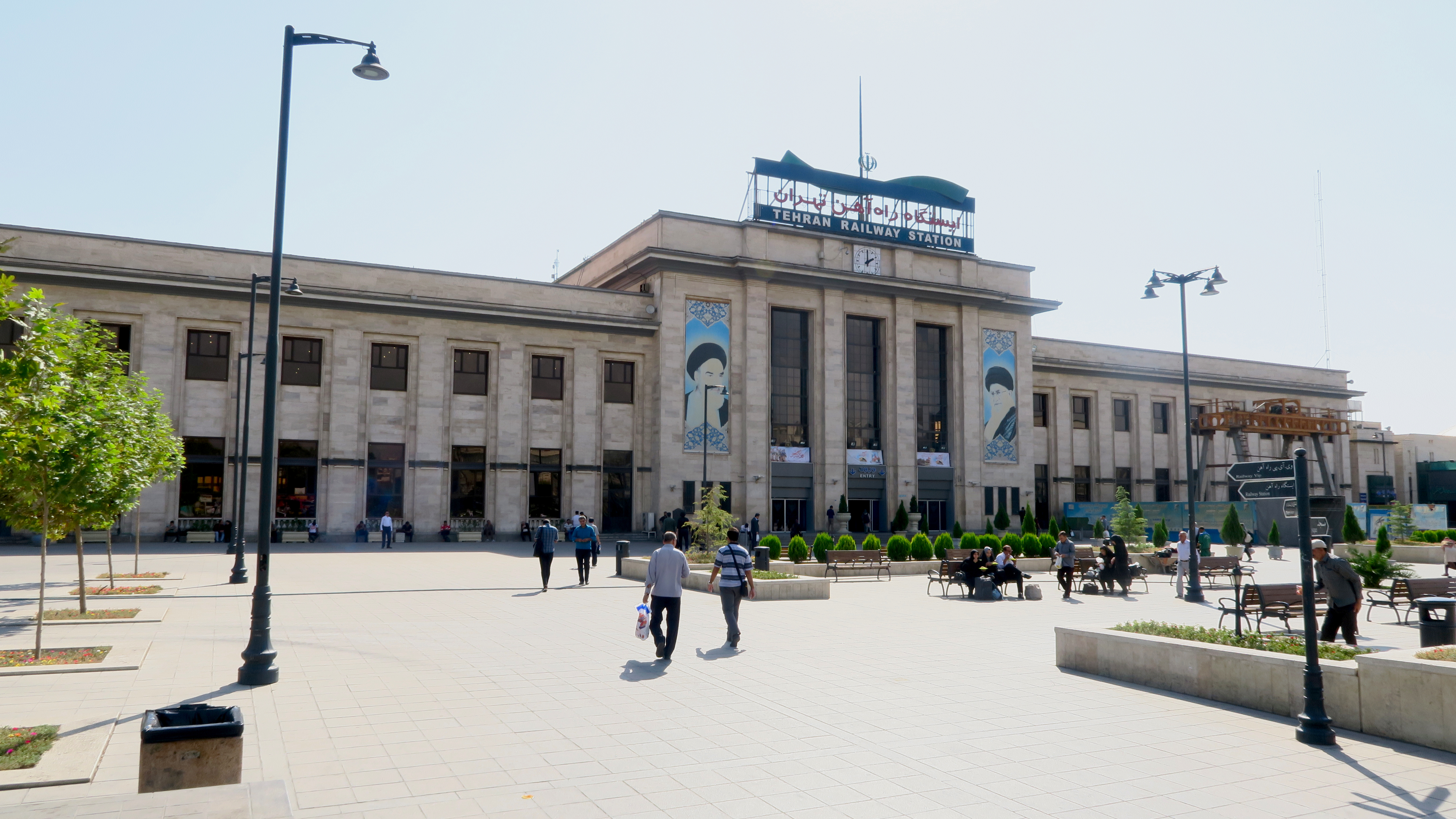 A view of the main building of Tehran railway station, Iran.